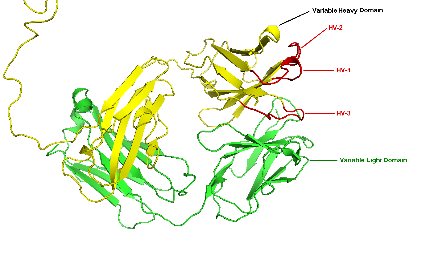 PDB 1IGT, created using Pymol